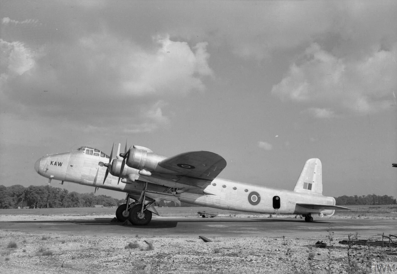 Aircraft of the Royal Air Force 1939-1945- Short S.29 Stirling. Stirling C Mark V, PK143, of No. 242 Squadron RAF, on the ground at Stoney Cross, Hampshire.